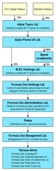 Formula One organisation's tree, from English Wikipedia